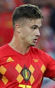 Leander Dendoncker